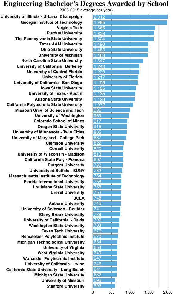 Engineering Bachelor’s Degrees Awarded by School (2006-2015)